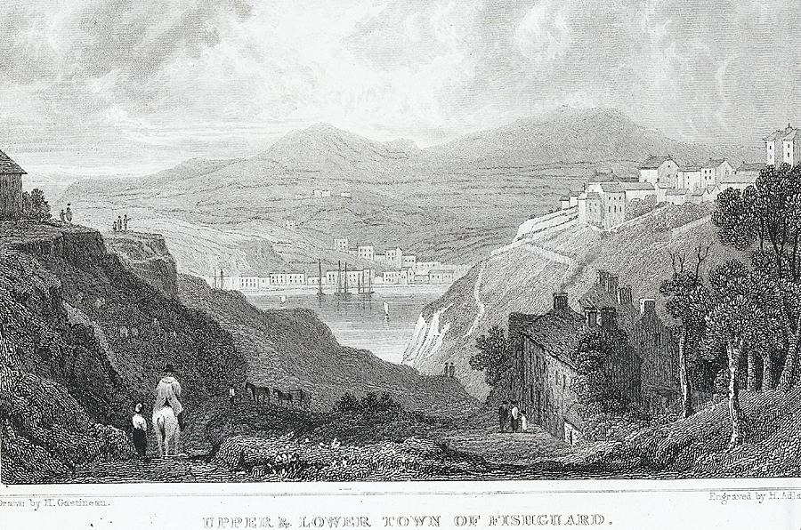 Abstract: Travellers on road into Lower Town, ships, houses.